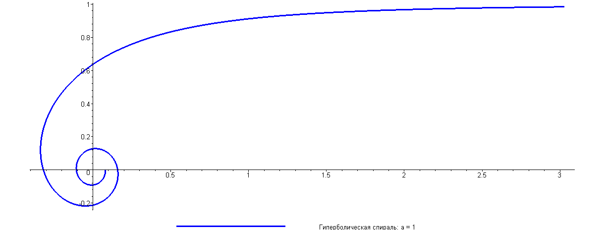 Hyperbolic spiral a = 1